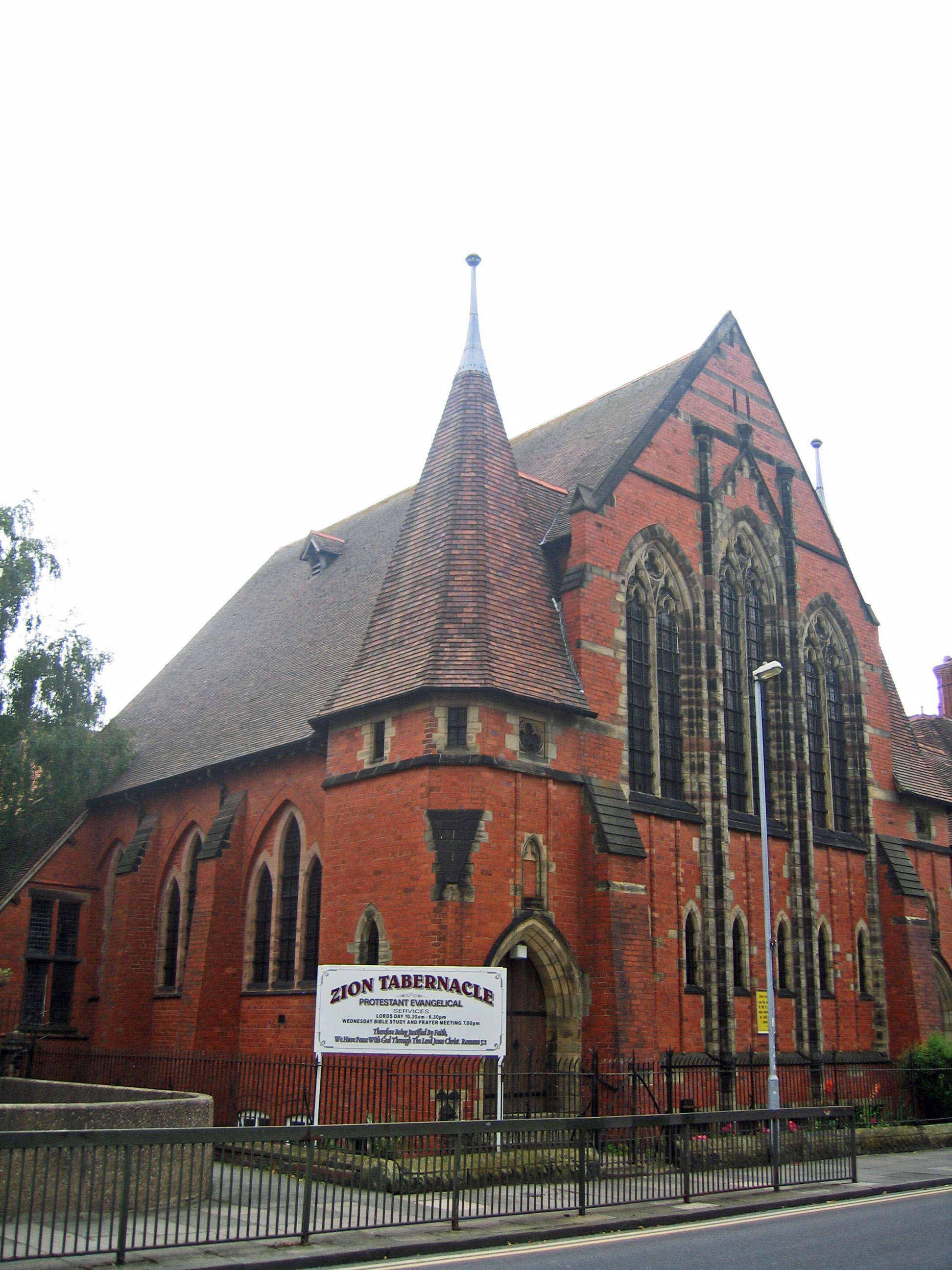 Photograph of Zion Chapel, Grosvenor Park Road, Chester, Cheshire, England